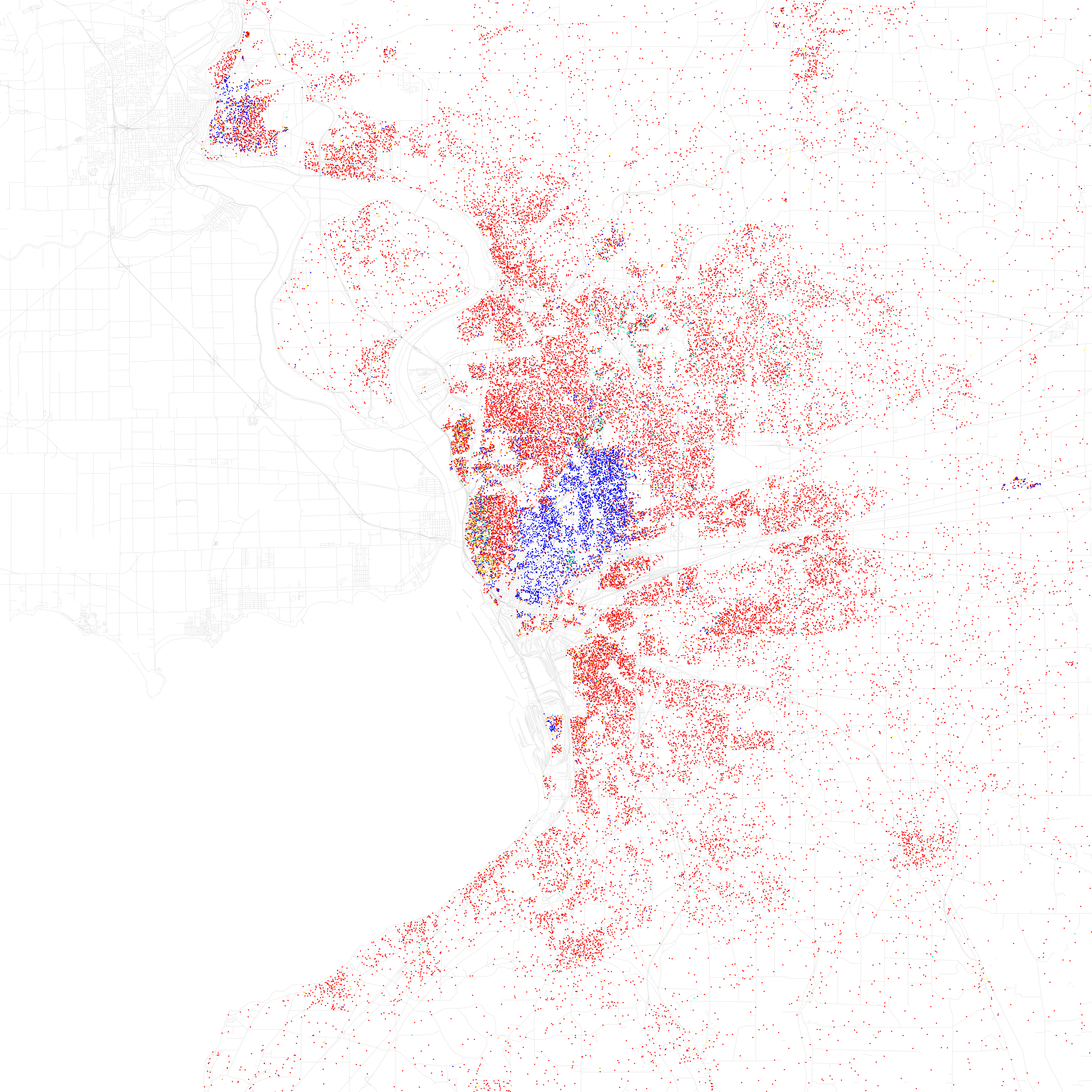 Maps of racial and ethnic divisions in US cities, inspired by Bill Rankin's map of Chicago, updated for Census 2010. Red is White, Blue is Black, Green is Asian, Orange is Hispanic, Yellow is Other, and each dot is 25 residents. Data from Census 2010. Base map © OpenStreetMap, CC-BY-SA